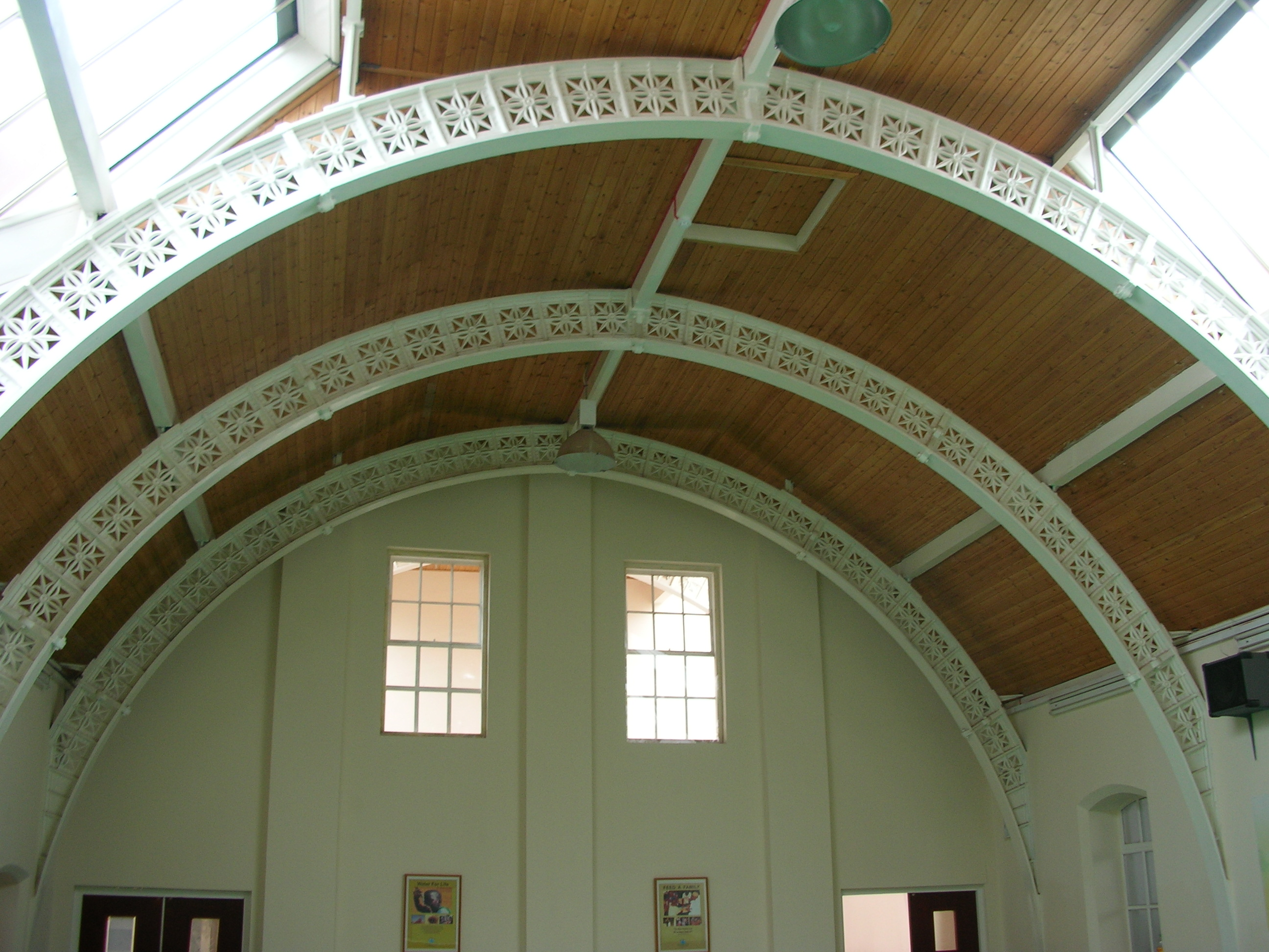 The exposed ironwork in a typical Martin & Chamberlain Birmingham board school. This is from Tilton Road School, Bordesley, Birmingham, England. c 1890. Photographed by me.